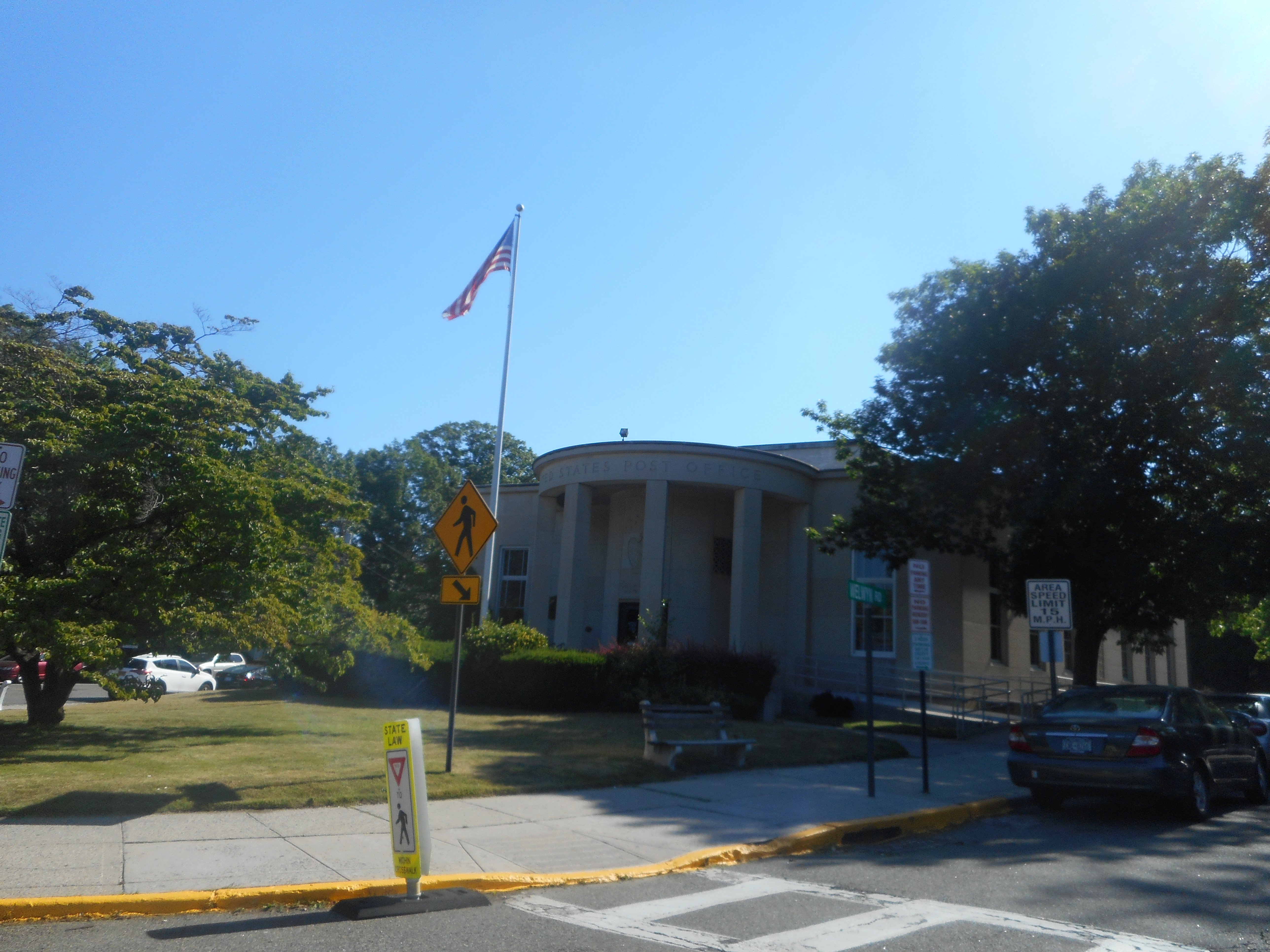 The NRHP-listed Great Neck Post Office as seen from Welwyn Road in Great Neck Plaza, New York. Kind of darker than what I wanted, but it still beats the one with the sun glare that makes it look like it's on a hill.